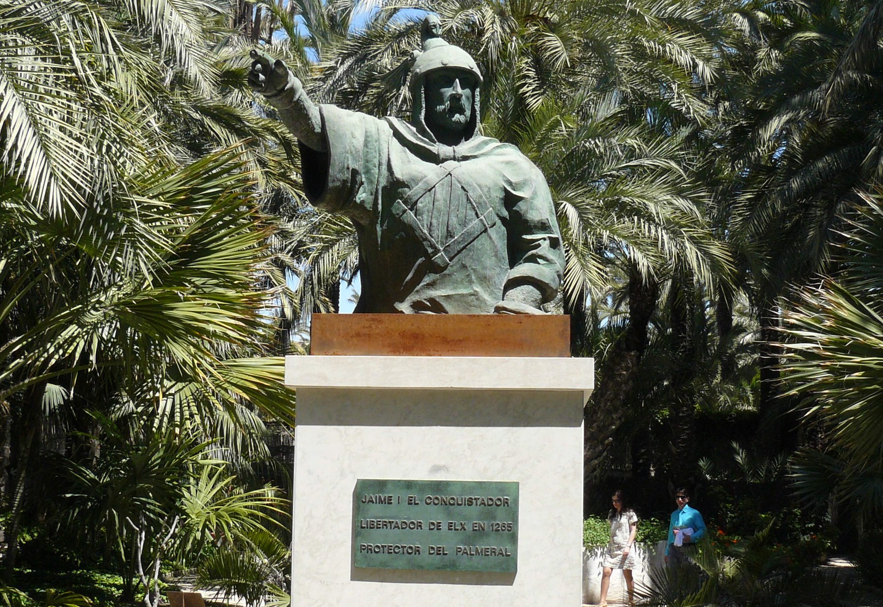 James I of Aragon - monument in Elche, Spain.